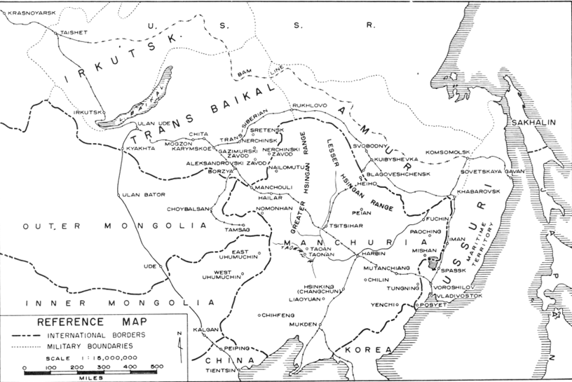 Reference map of major railways in the Far East on the eve of World War II